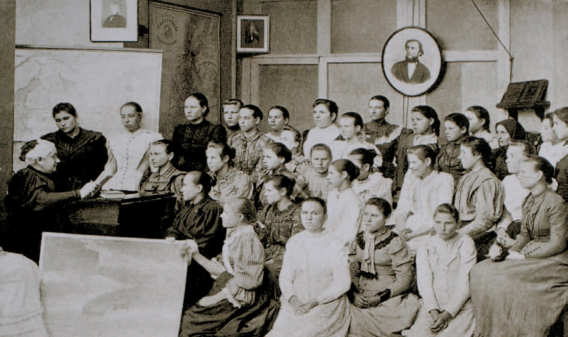 A reading lesson in Kharkov private female Sunday school. A teacher — Christina D. Alchevskaya. Early XX century.